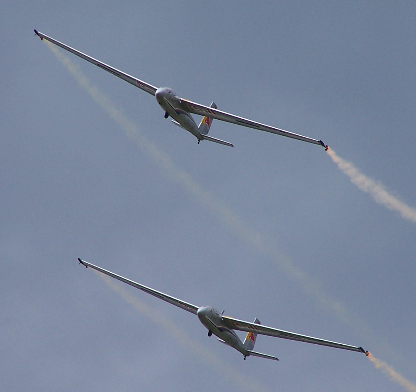 Let L-13 Blanik OE-0758 OE-0739 EDMT 20080719